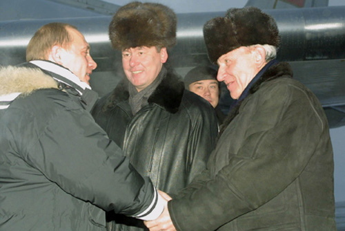 President Vladimir Putin with Tyumen Governor Sergei Sobyanin and Alexander Filippenko, Governor of the Khanty-Mansi Autonomous Okrug, to the right, at the airport during the greeting ceremony. Novy Urengoy, Yamalo-Nenets Autonomous Okrug (Russia).